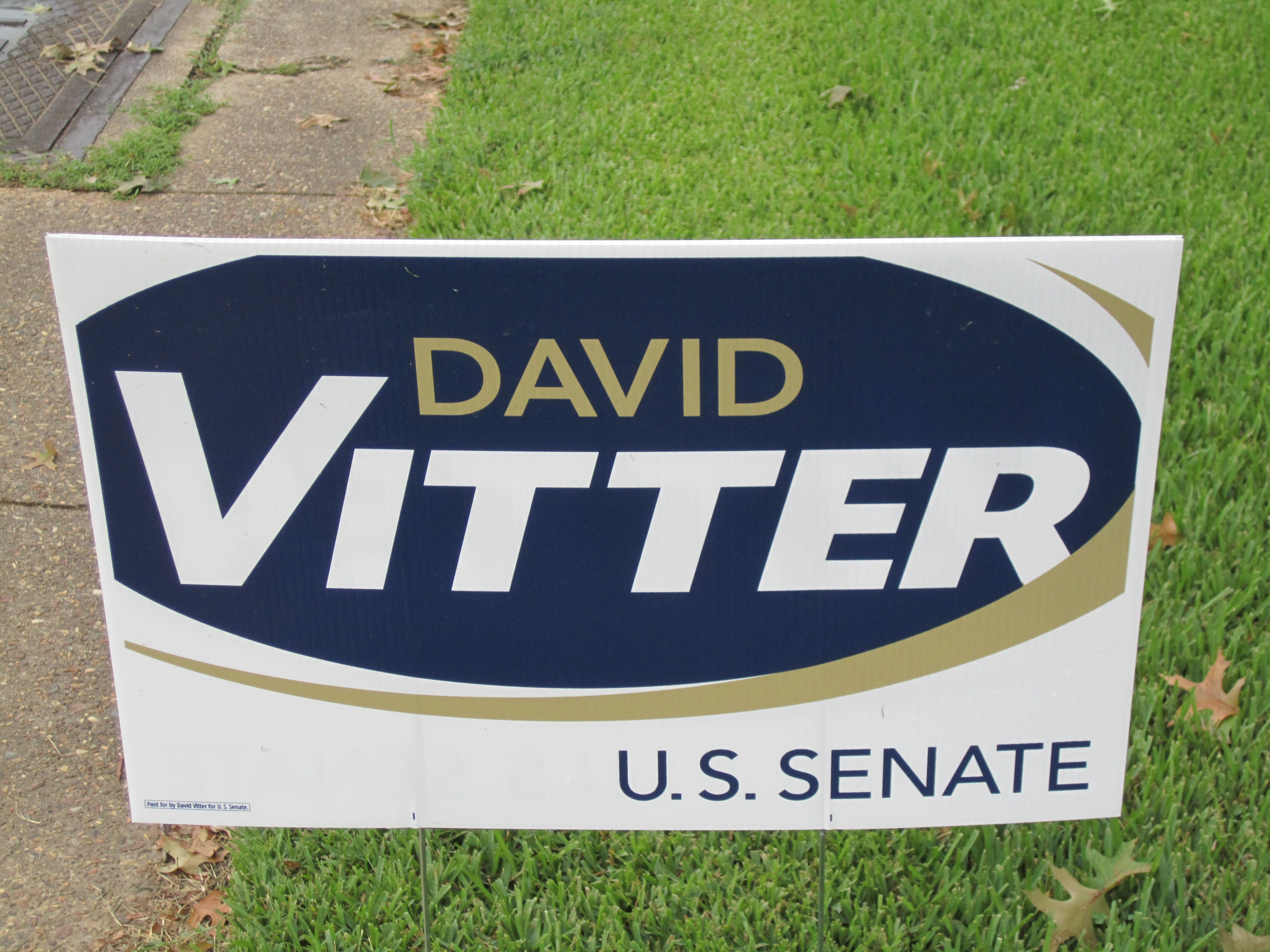 I took photo with Canon camera in Minden, LA.